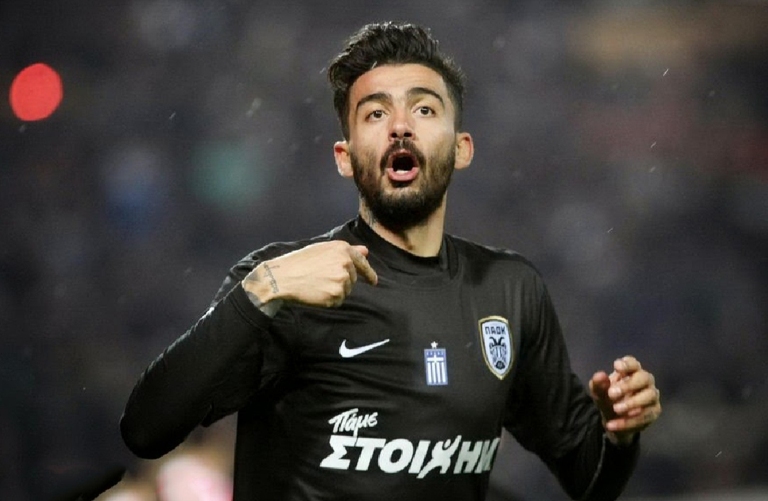 Stefanos Klaus Athanasiadis, Club captain of Paok FC